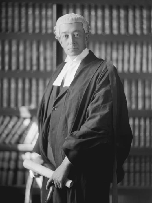 John Bartholomew Callan wearing a lawyers' wig and gown